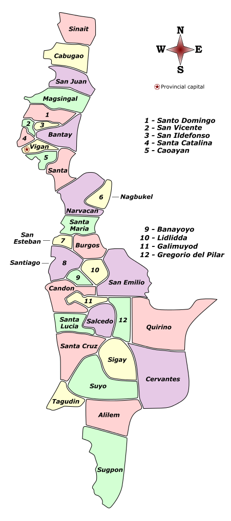 Labelled colored map of the province of Ilocos Sur, showing its component cities and municipalities.